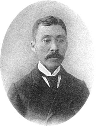 A. Inokuchi, Professor of Strength of Materials and Structures and Mechanical Engineering.